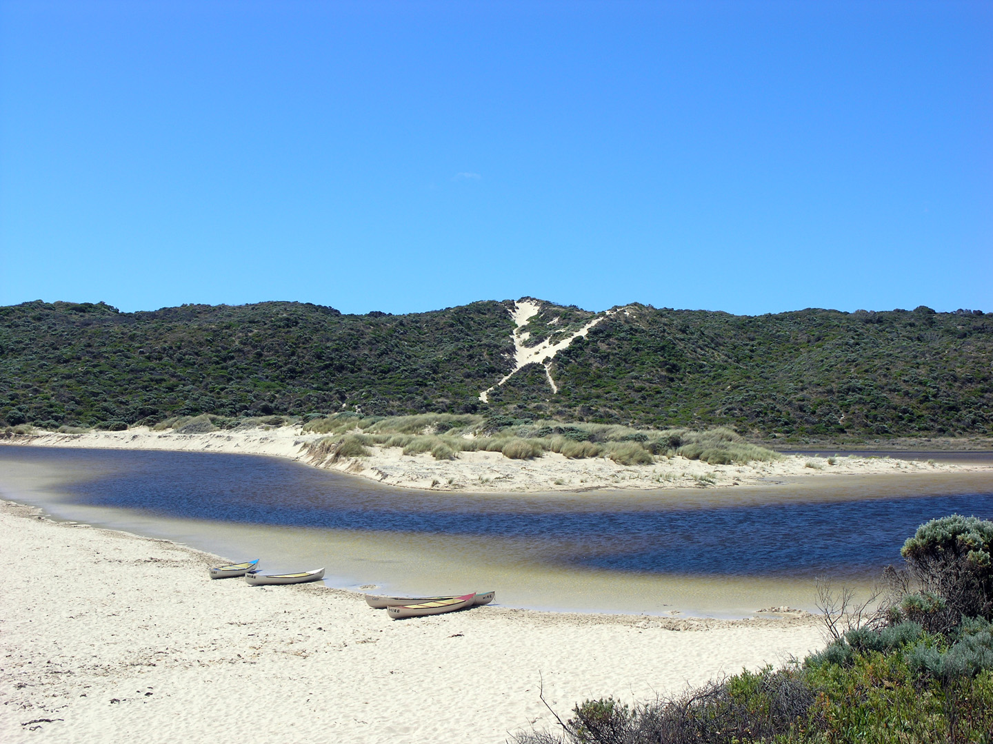 The Rivermouth of Margaret River, Western Australia, taken by myself